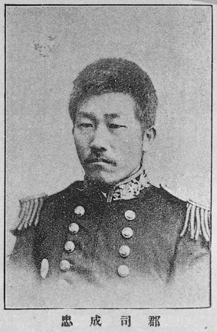 Portrait of Gunji Shigetada (郡司成忠, 1860 – 1924)